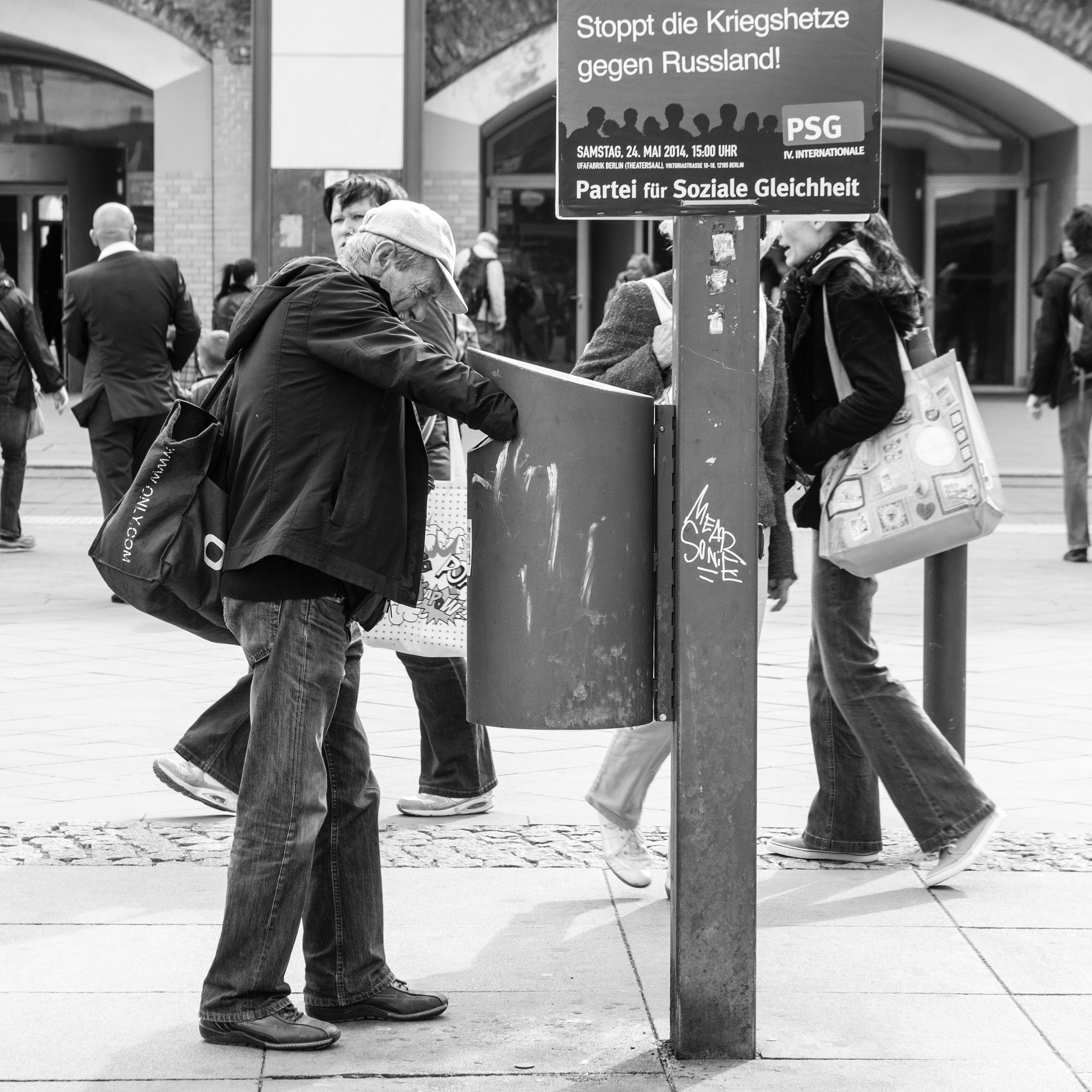 500px provided description: Stoppt die Kriegshetze gegen Russland [#B&W ,#People ,#Noir et Blanc ,#Black and White ,#Menschen ,#Man ,#Monochrome ,#Monochrom ,#Blanco y Negro ,#Pedestrian ,#Poster ,#Trash ,#Schwarzwei? ,#Mensch ,#Schwarz Weiss ,#Schwarzweiss ,#Rubbish ,#Mann ,#Waste ,#Garbage ,#Social ,#Placard ,#Plakat ,#Bianco e Nero ,#Garbage can ,#M?ll ,#Passant ,#M?lltonne ,#Trashcan ,#M?lleimer ,#Refuse ,#Passante ,#Rubbish bin ,#Passanten ,#Sozial ,#Passerby ,#???????? ,#?????? ,#????????? ,#??? ,#Wahlplakat ,#El Transe?nte ,#Election Poster ,#Flaschensammler ,#Cartel Electoral ,#Manifesto Elettorale ,#Affiche ?lectorale]